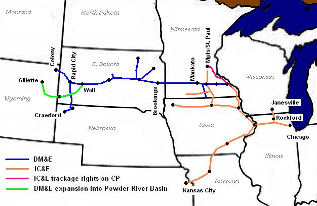 Route map of the Dakota and the Iowa as of 2002 State and lake outlines extracted from Perry-Castañeda Library Map Collection; the Library's FAQ asserts public domain status on the original map. Railroad outlines and city and state labels by Sean Lamb (User:Slambo), January 20 2005; created using Microsoft Paint, based on a map published in the May 2002 issue of Trains Magazine (p. 14).